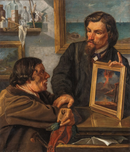 Provincial art Author: Roman Alekna-Szwoynicki (1845–1915) Created: 1872 Material: canvas Technique: oil Dimensions: 90 × 78 cm Signature: bottom right: R. Szwojnicki 1872